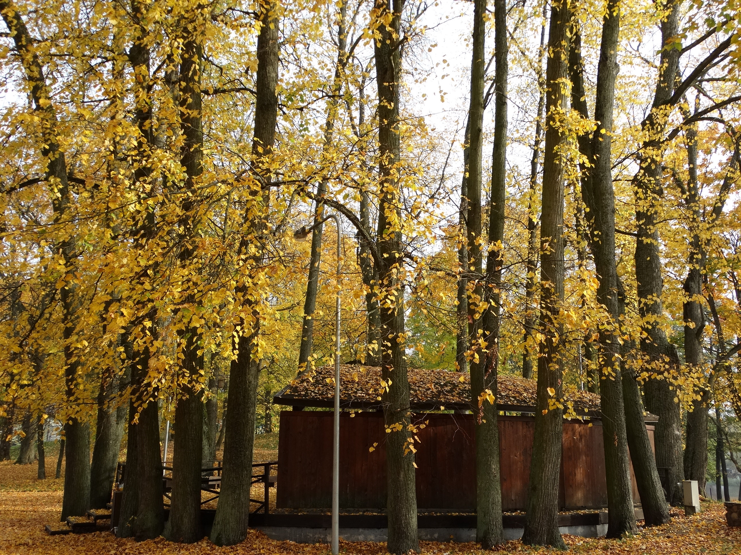 Circle of lime trees, park, Veisiejai, Lithuania